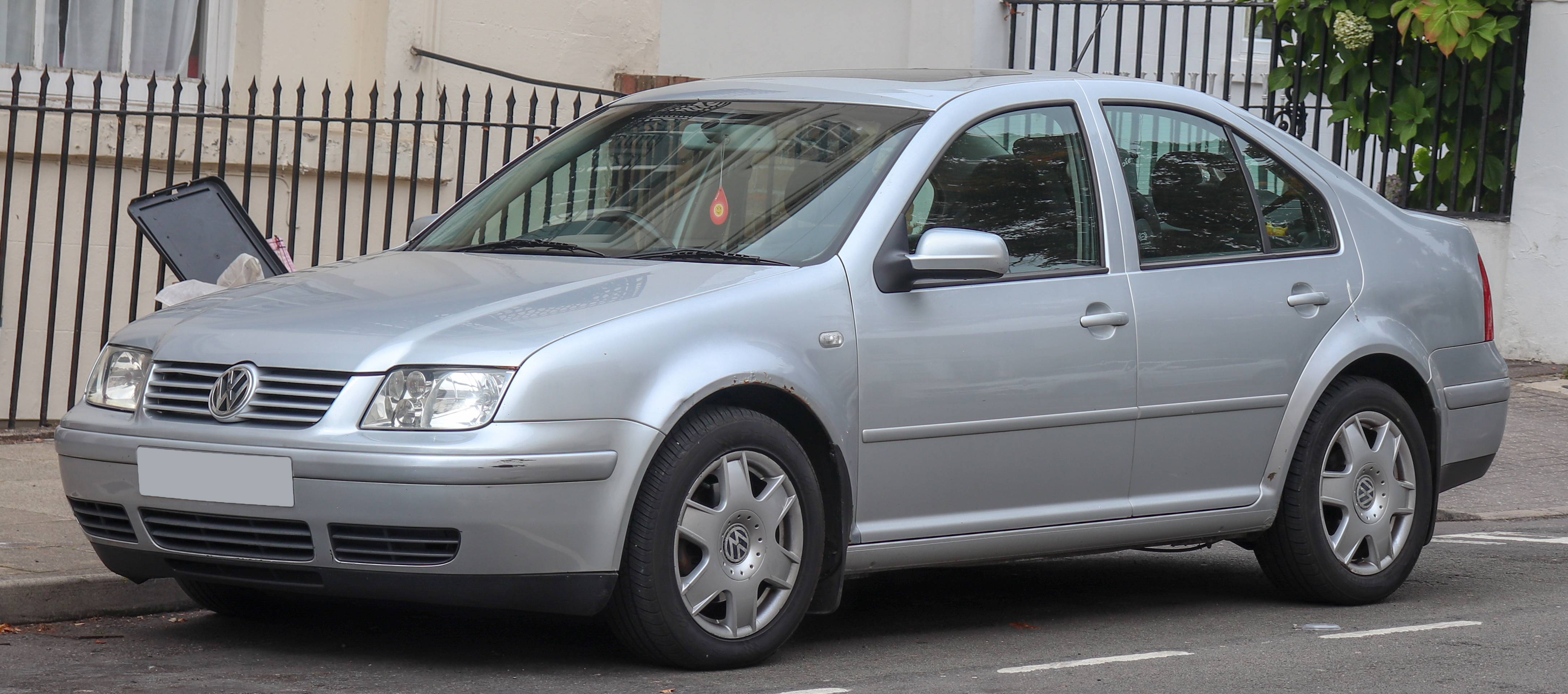 2004 Volkswagen Bora TDi SE 1.9 Front Taken in Leamington Spa